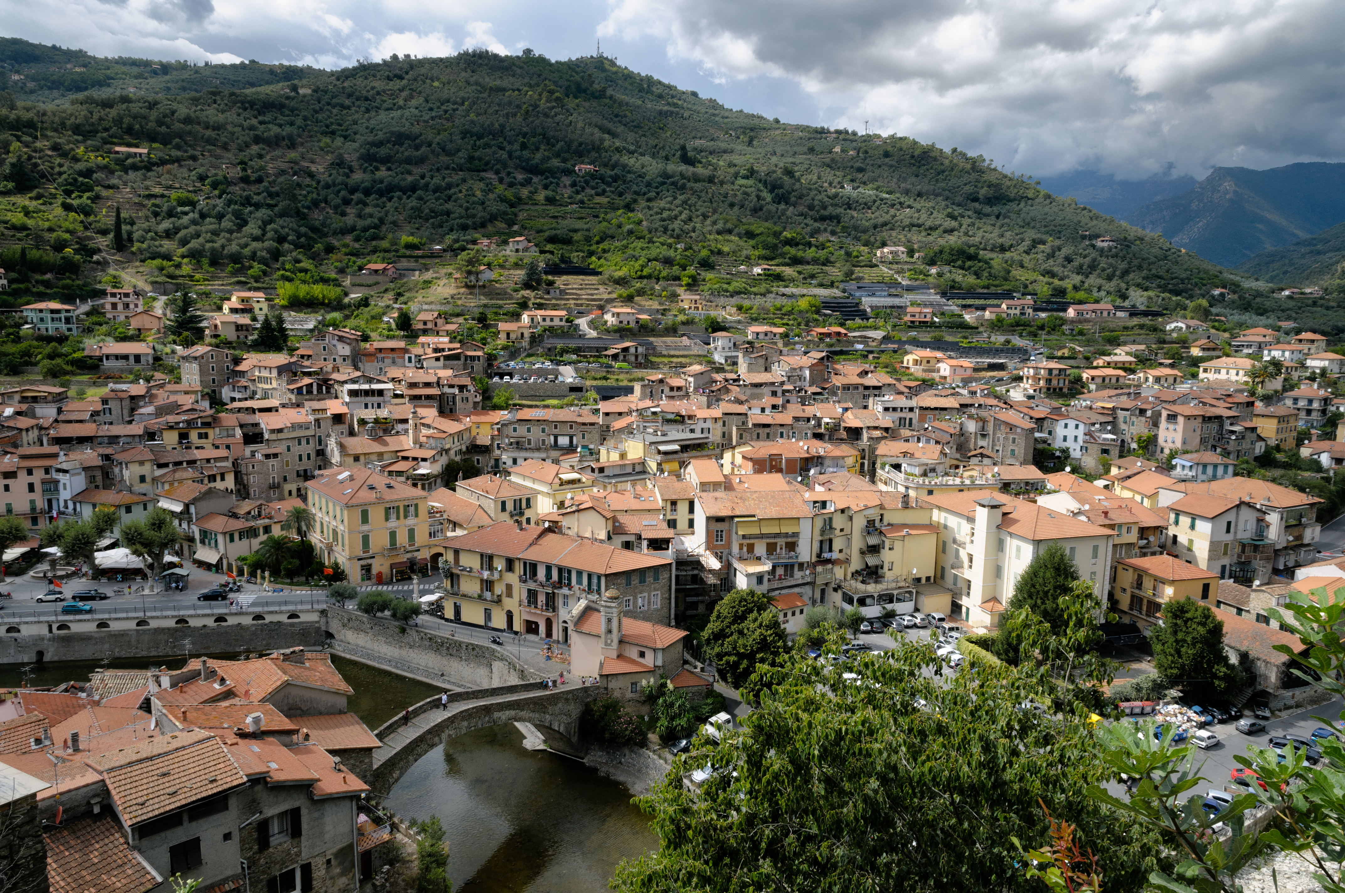 View on Dolceacqua, from the castle.